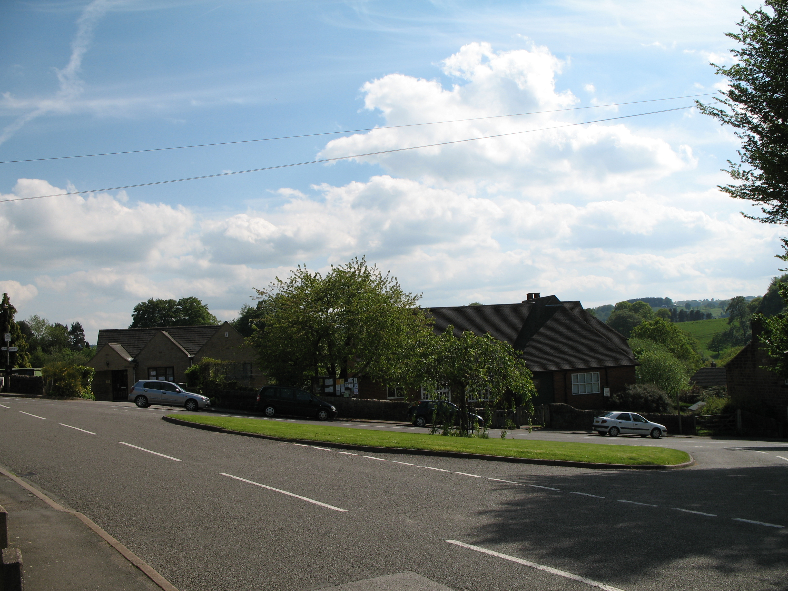 A photo showing the Florence Nightingale Memorial Hall and the Doctors Surgery in Holloway, Derbyshire. Taken by Andrew Waite (naxtek) using a Canon A620